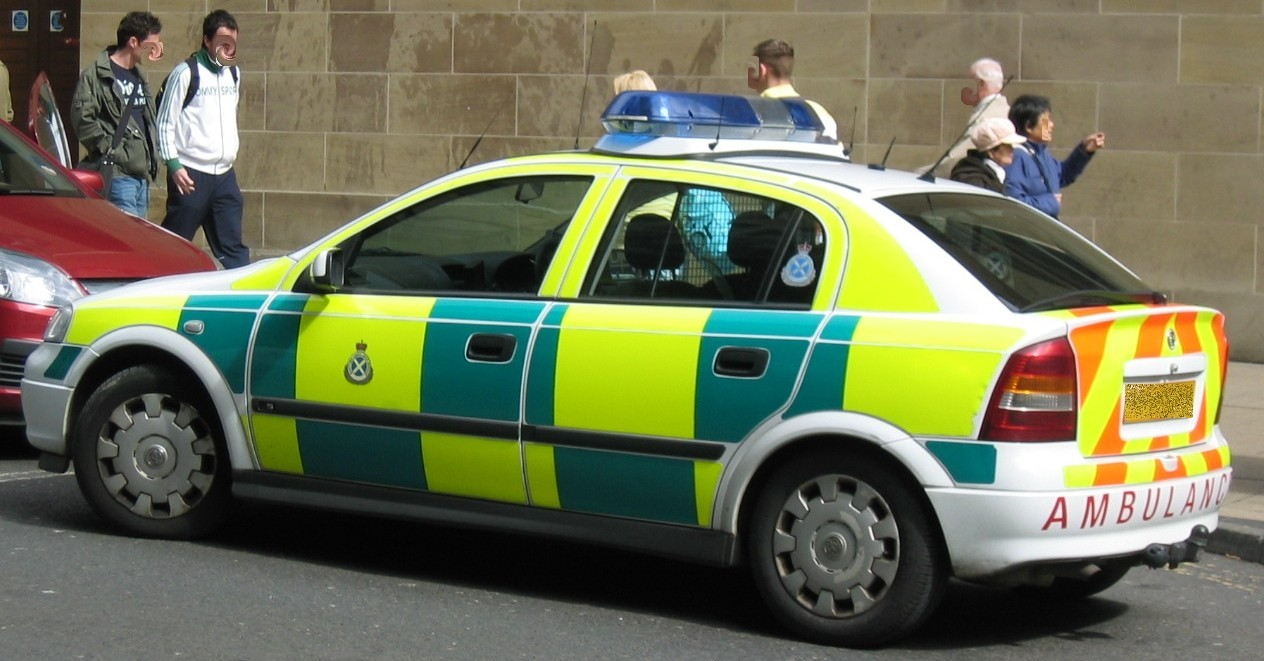 Scottish Ambulance Service paramedic vehicle with high visibility battenberg green and yellow colour scheme.